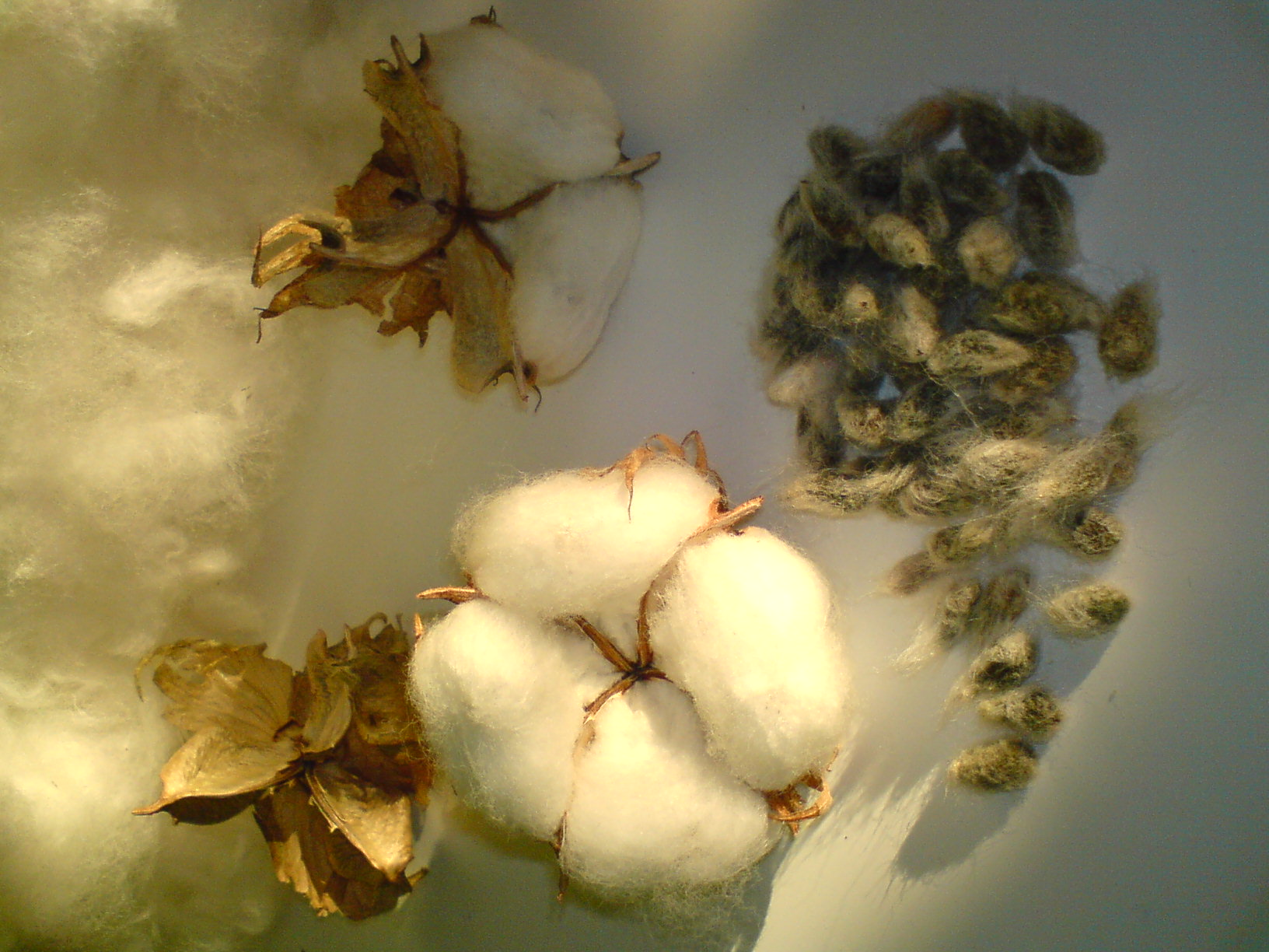 (Gossypium L.)